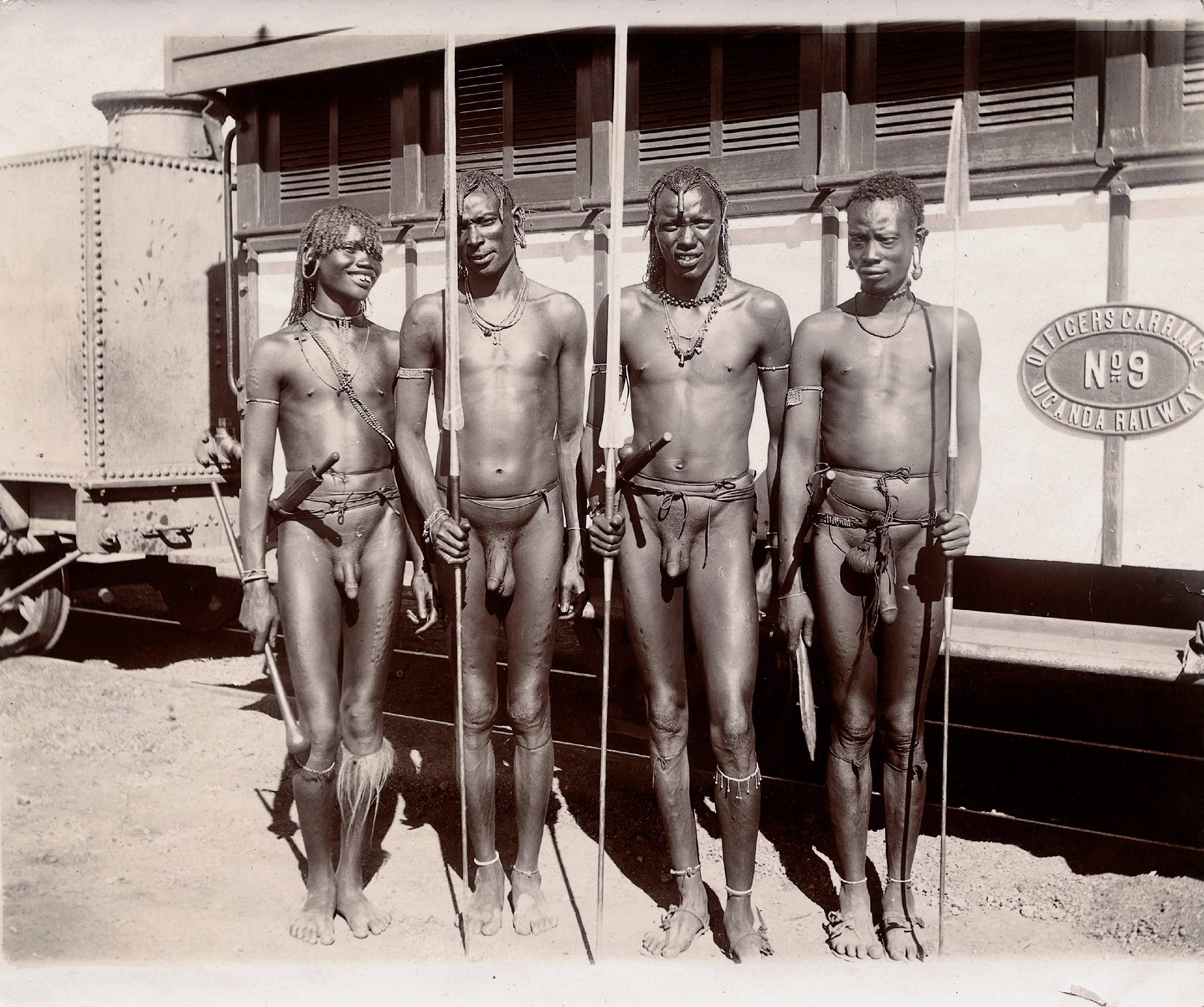 Four young Masai tribesmen, carrying spears, standing beside a train. Photograph, ca.1900. Iconographic Collections